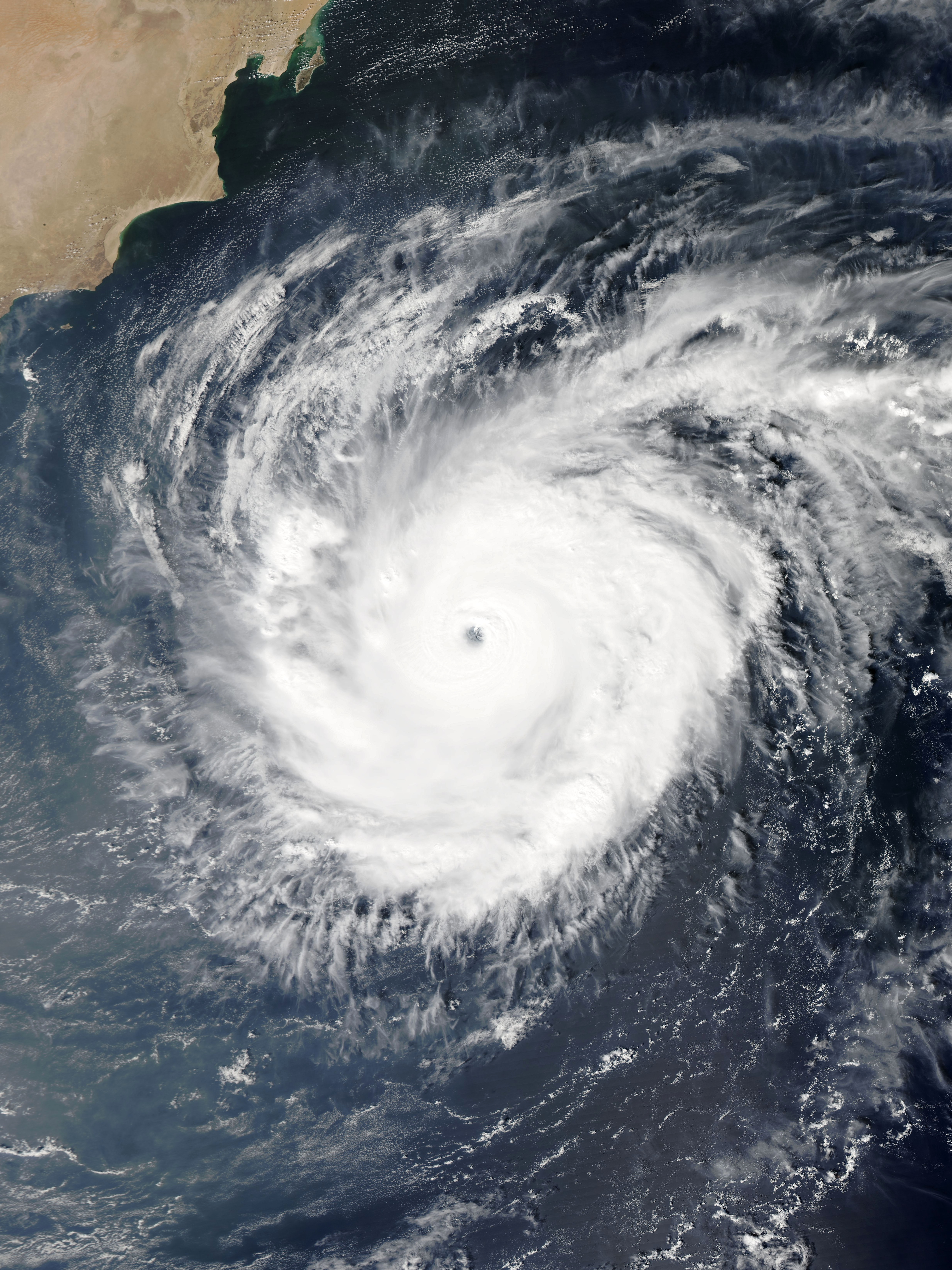 Extremely Severe Cyclonic Storm Chapala over the Arabia Sea on 30 October 2015.